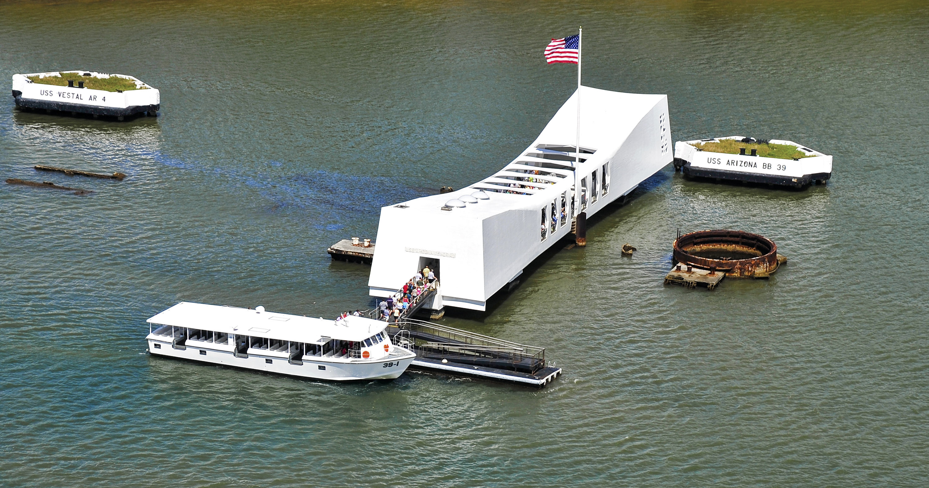 An aerial view of Pearl Harbor showing the USS Arizona Memorial on Joint Base Pearl Harbor-Hickam. This memorial marks the location where more than 1,000 sailors and Marines were killed on the battleship USS Arizona (BB 39) during the 1941 attack on Pearl Harbor. (U.S. Navy photo by Mass Communication Specialist 3rd Class Diana Quinlan/Released)